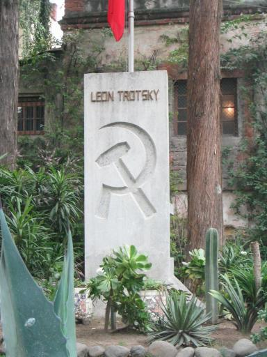 Leon Trotsky's grave at his Coyoacán home-museum (Coyoacán, Mexico City)